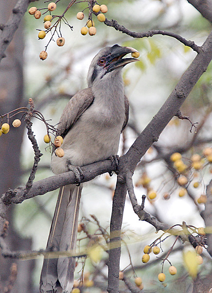 Indian Grey Hornbill Ocyceros birostris at Roorkee in Haridwar District of Uttarakhand, India.